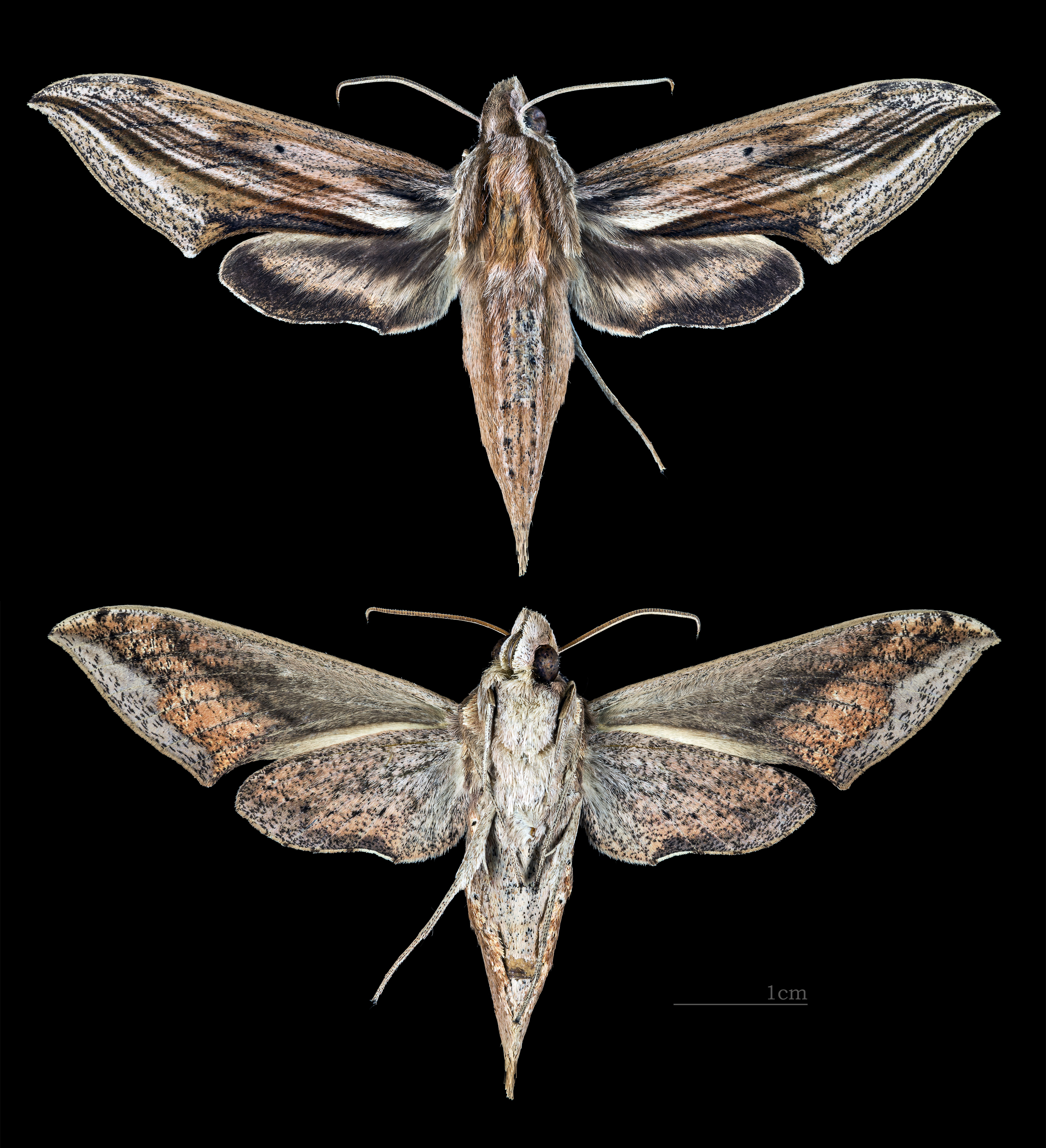 Xylophanes maculator - Two views of same specimen Collection of the Mathematician Laurent Schwartz